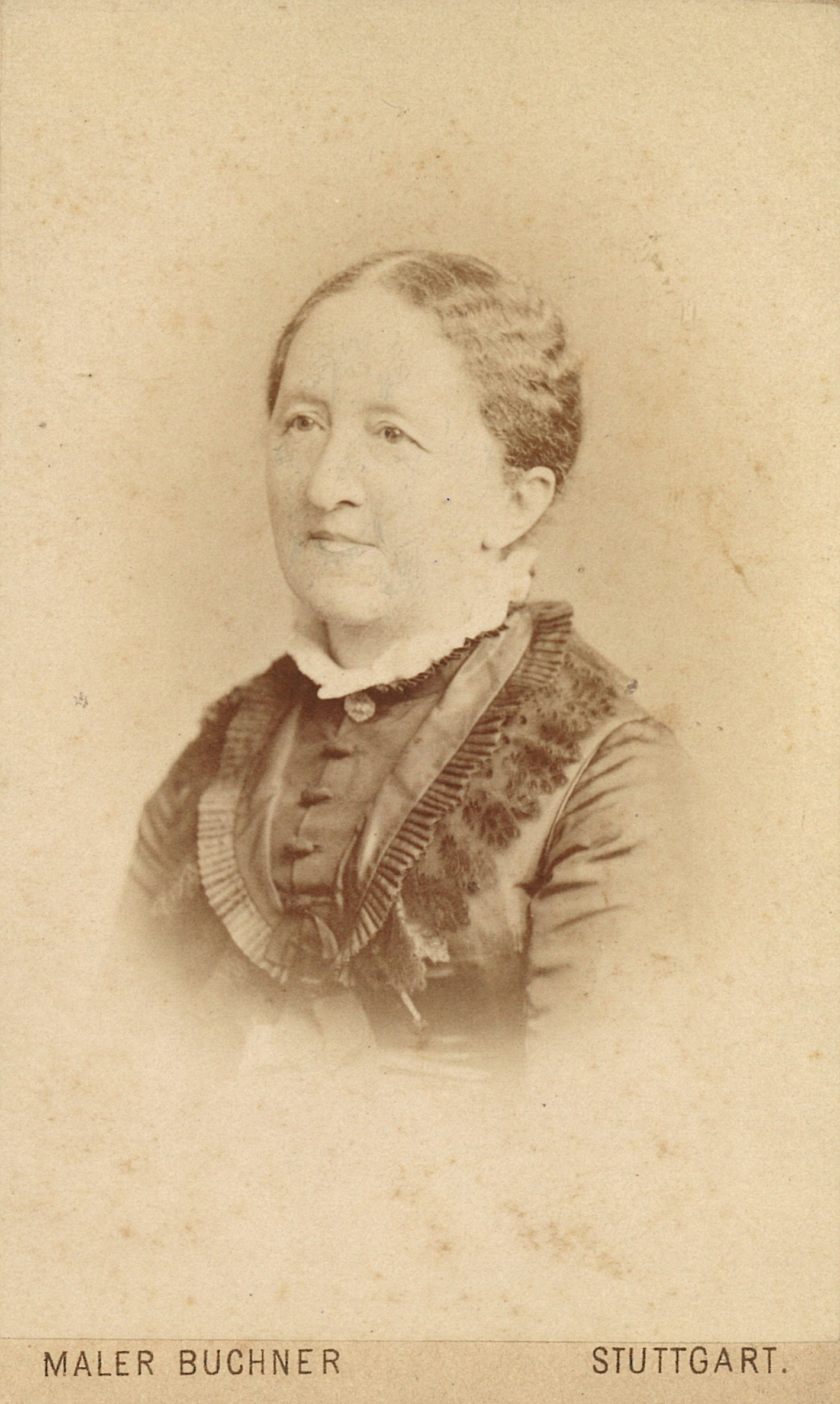 Emilie Forster (about 1850) Description on back side of photography: 'Emilie Forster, Geb. 5/11.1826 in Kaisersberg (Steiermark); Getraut 11/5.1851 in New York mit Dr. Ernst Nepomuk Krackowizer'